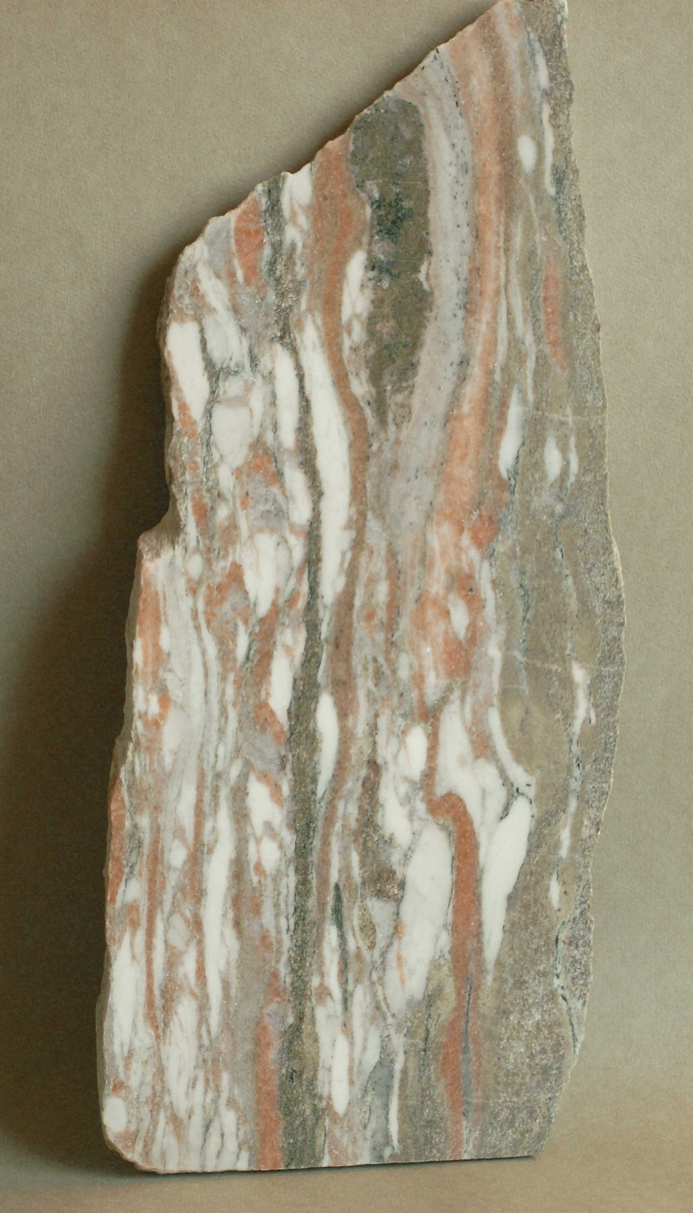 Marble from Fauske in Norway (NORVEGIAN ROSE / FURULI ROSE)